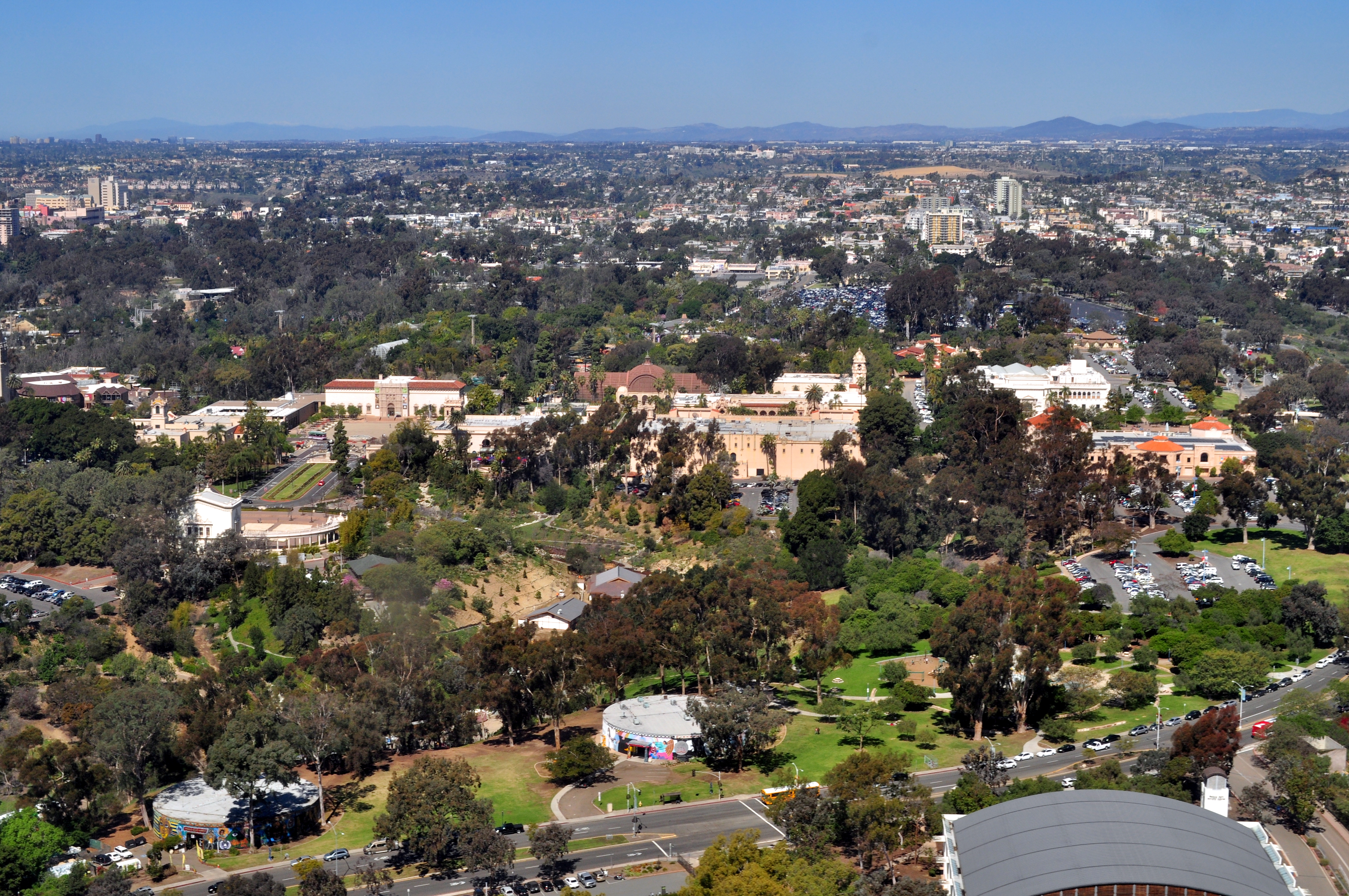 Aerial view of El Prado Complex, Balboa Park, San Diego, California, looking roughly north.